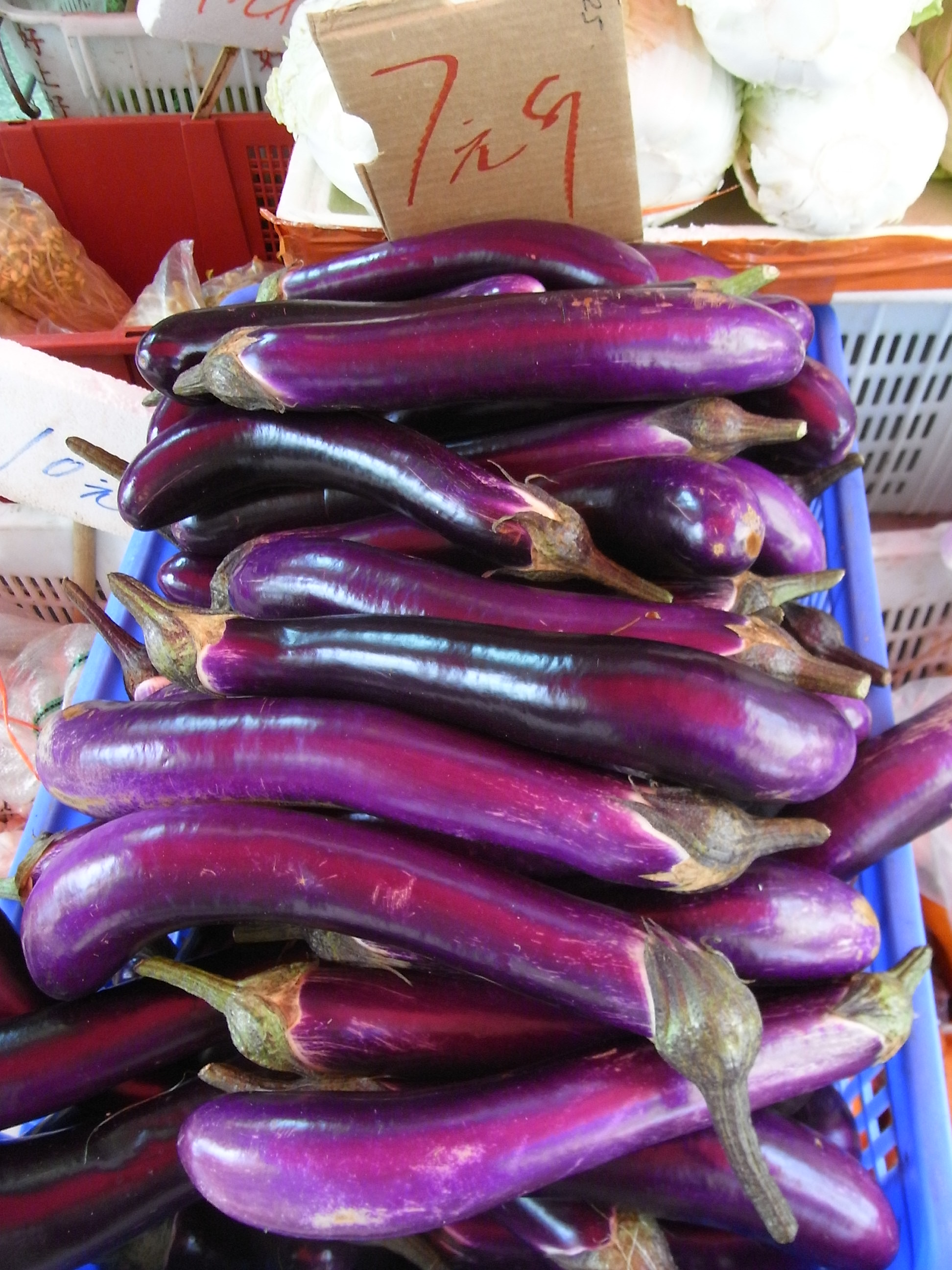 好上好膳康菓菜雜貨公司